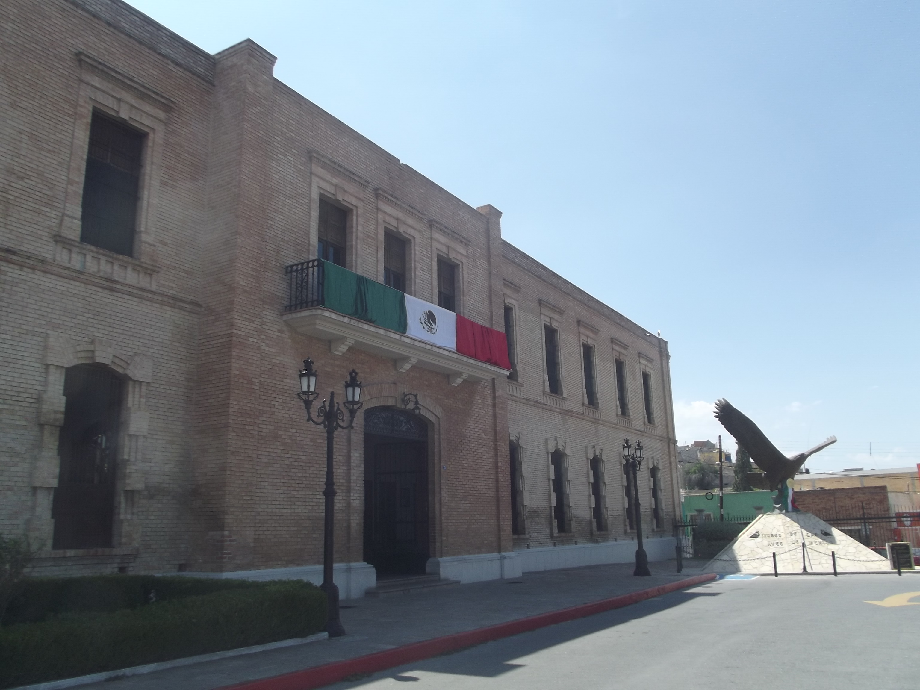 Museo de las Aves de la Ciudad de Saltillo (Museum of Birds of Saltillo City), in the Wikipedia's list of monuments it is listed under the name of "Inmueble de Oficinas (Saltillo)" (Office Property (Saltillo))" since the building was used as offices in some time. The museum has one of the biggest collection of stuffed birds in the world.